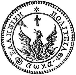 Reverse of a Greek phoenix coin, bearing the national emblem of Greece, ca. 1830. The words read: "Hellenic State" and the date "1821", referring to the outbreak of the Greek Revolution. Source: edited & cleared from a PD image of the actual coin Date: 19 November 2007 Author: Cplakidas Permission: (Reusing this image) see below